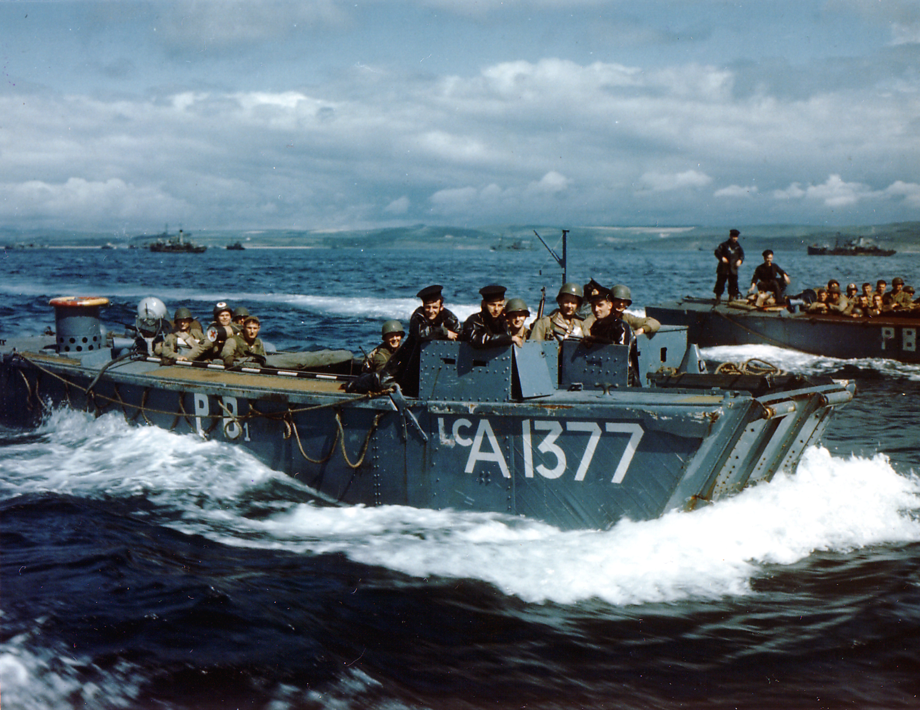 Photo #: USA C-1087 (Color) British Navy Landing Craft LCA-1377 Carries American troops to a ship, in a British port during preparations for the Normandy invasion, circa May-June 1944. Note British Sailors in the boat's conning station. Letters "PB" on the boat's side indicate that it is assigned to HMS Prince Baudouin.